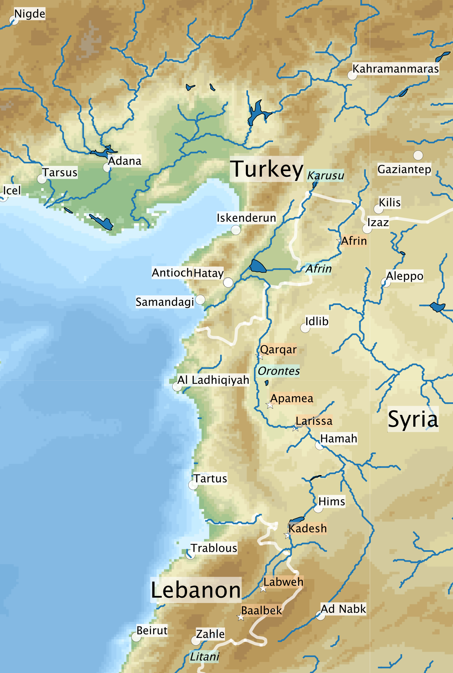 Orontes river created me using QGis and Inkscape from HydroSHEDS, Natural Earth, GLWD, and ETOPO1 information.